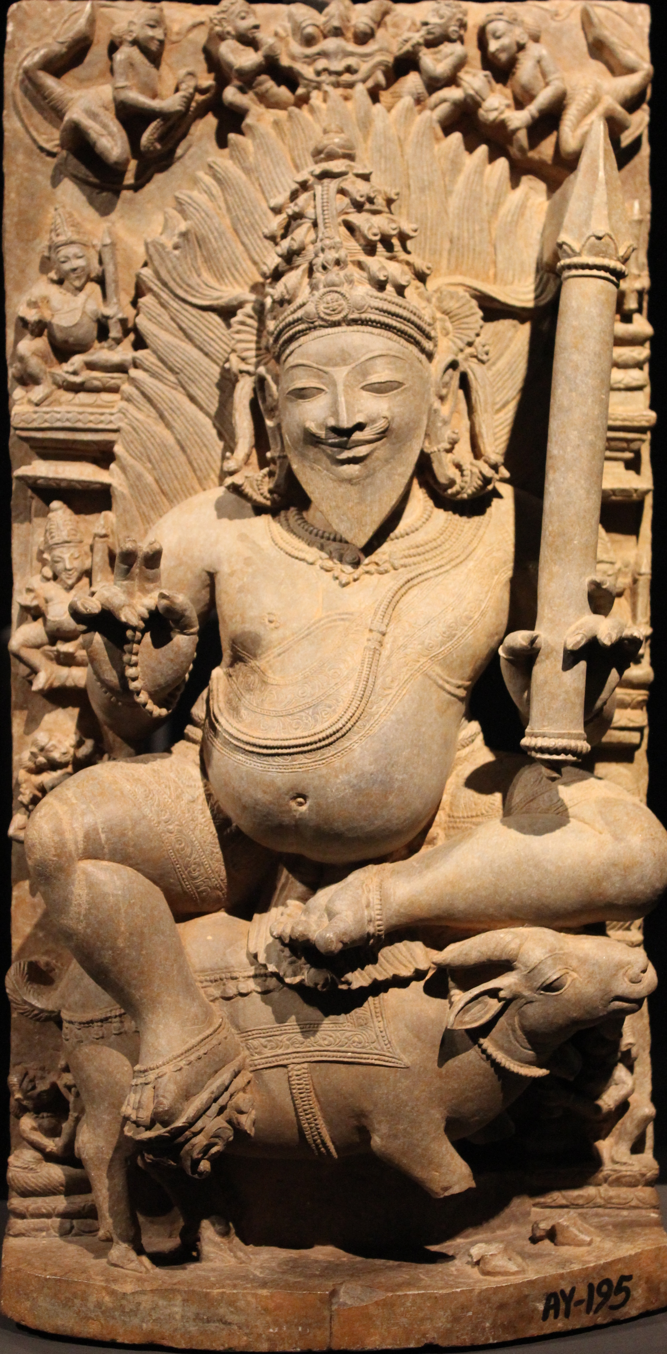 The Gods of the 8 directions North East - Ishana East - Indra South East - Agni South - Yama South West - Nairrti West - Varuna North West - Vayu North - Kubera